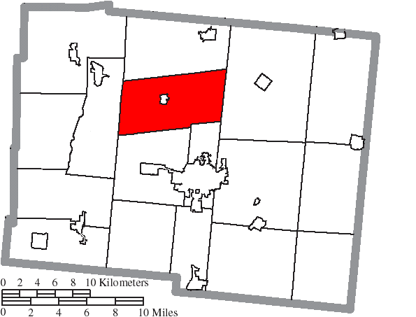 Map of the municipal and township boundaries of Logan County, Ohio, United States, as of the 2000 census, with the location of McArthur Township highlighted. Township borders are shown only in unincorporated areas in order to differentiate incorporated and unincorporated areas more clearly.